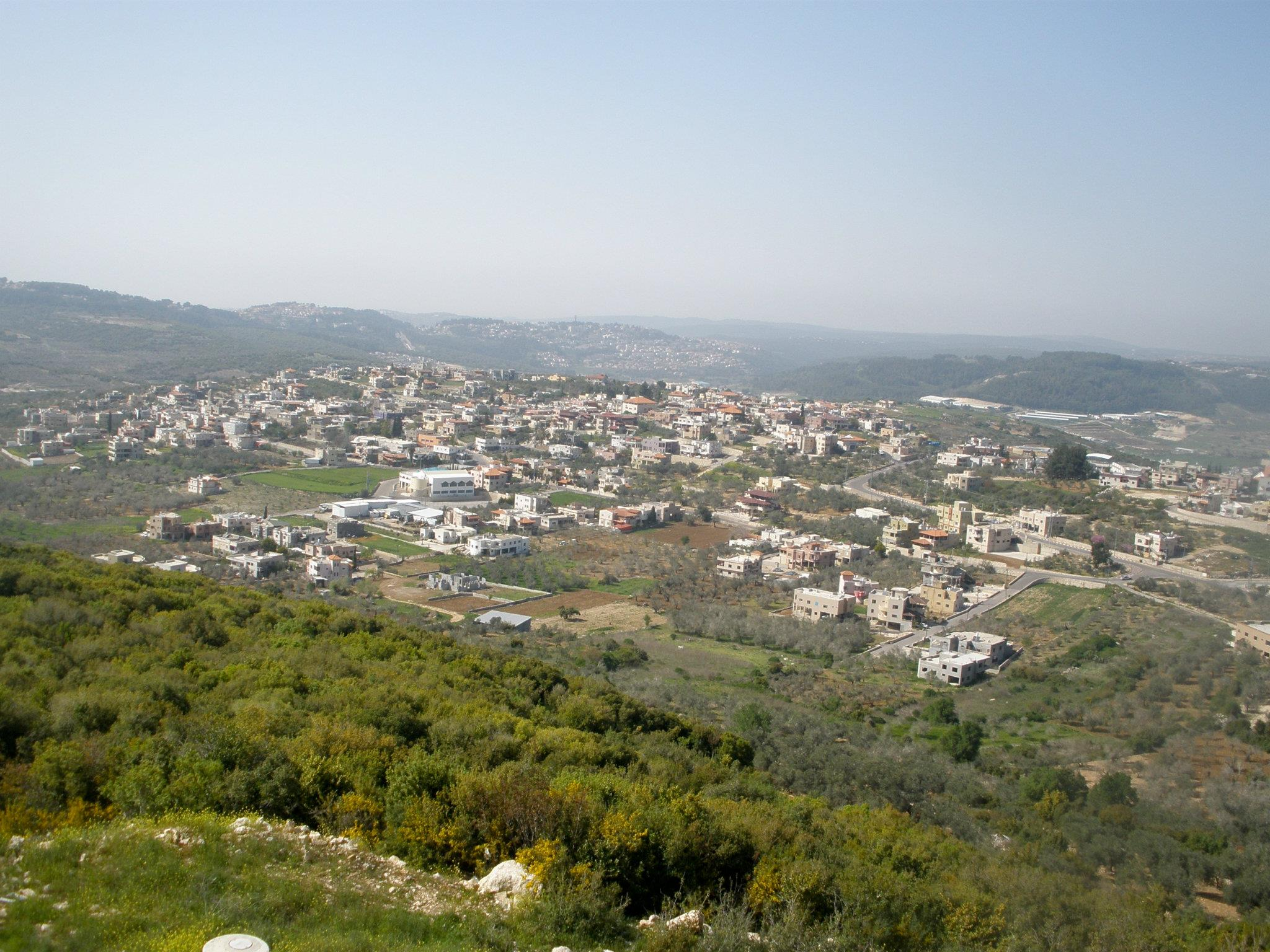 Kifar Smeaa, Upper Galilee.